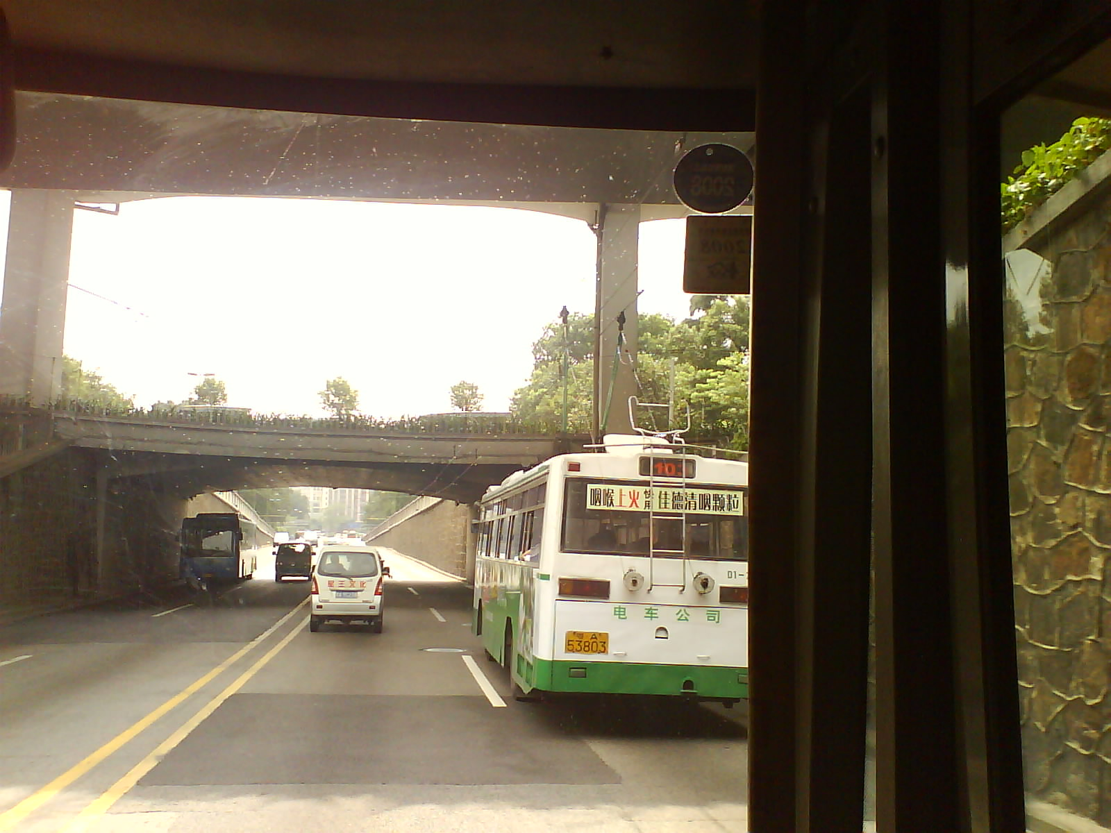 Trolleybus in Guangzhou, China, in the province of Guangdong.